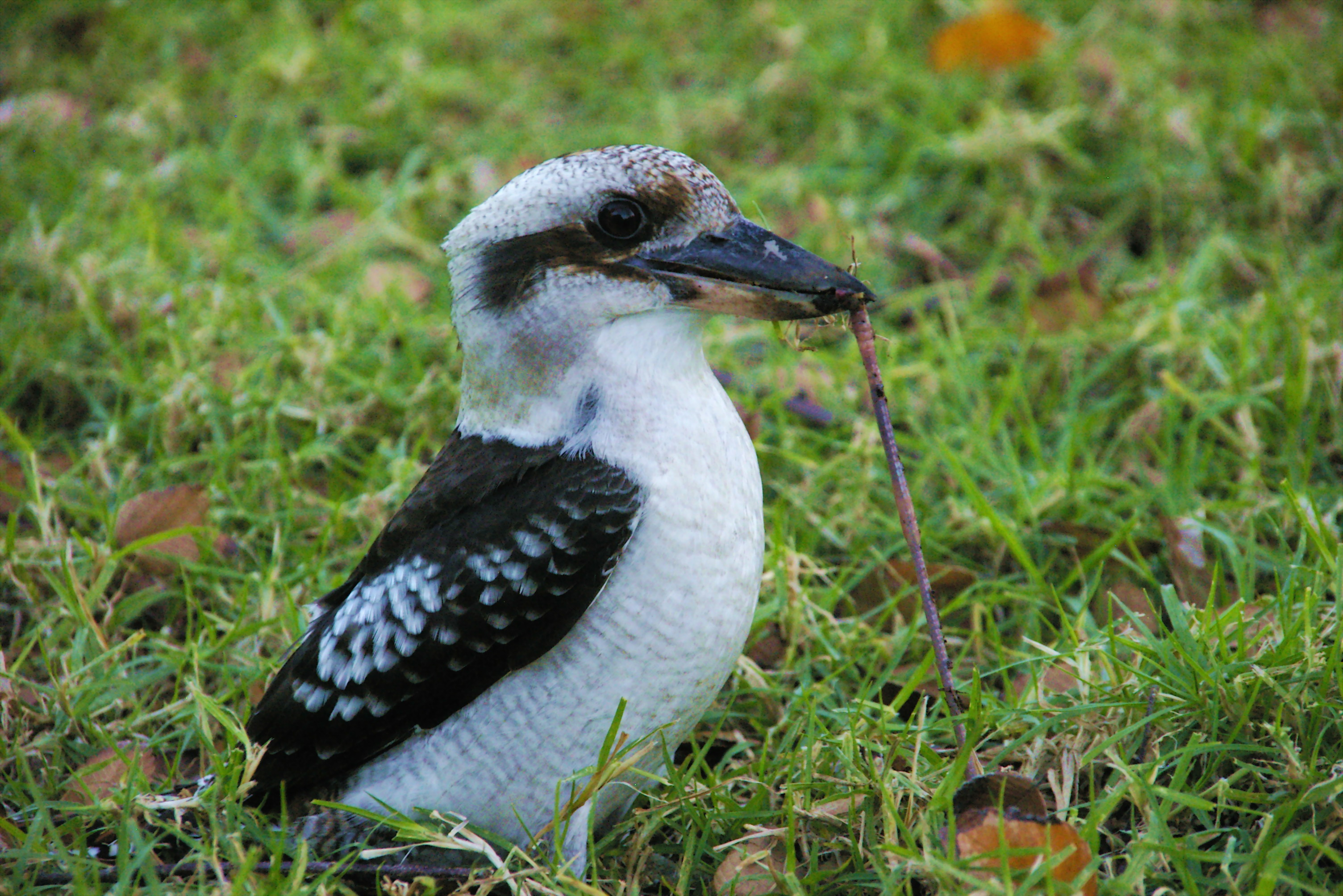 Laughing Kookaburra is catching a worm, in Sydney / Australia